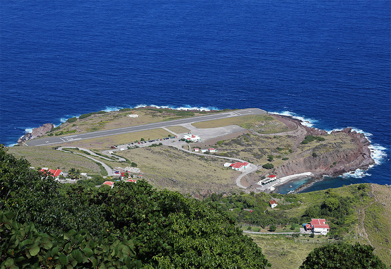 Saba airport from above.